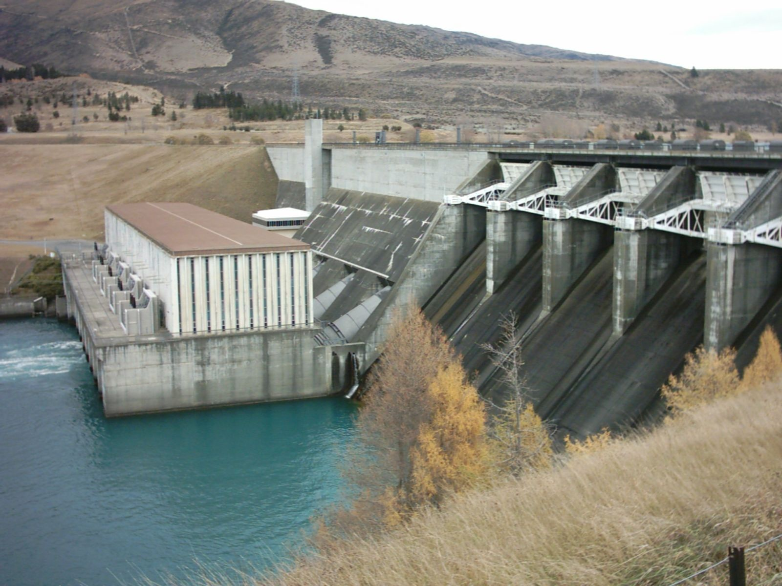 The Aviemore Dam in New Zealand seen from the Canterbury (North) side.